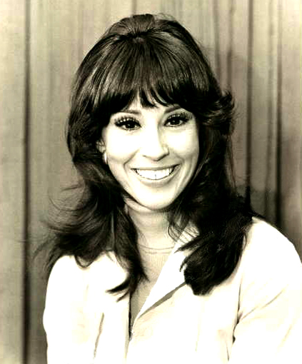 Publicity photo of Denise Alexander as Lesley Williams (commonname now Lesley Webber) from the daytime drama, General Hospital.